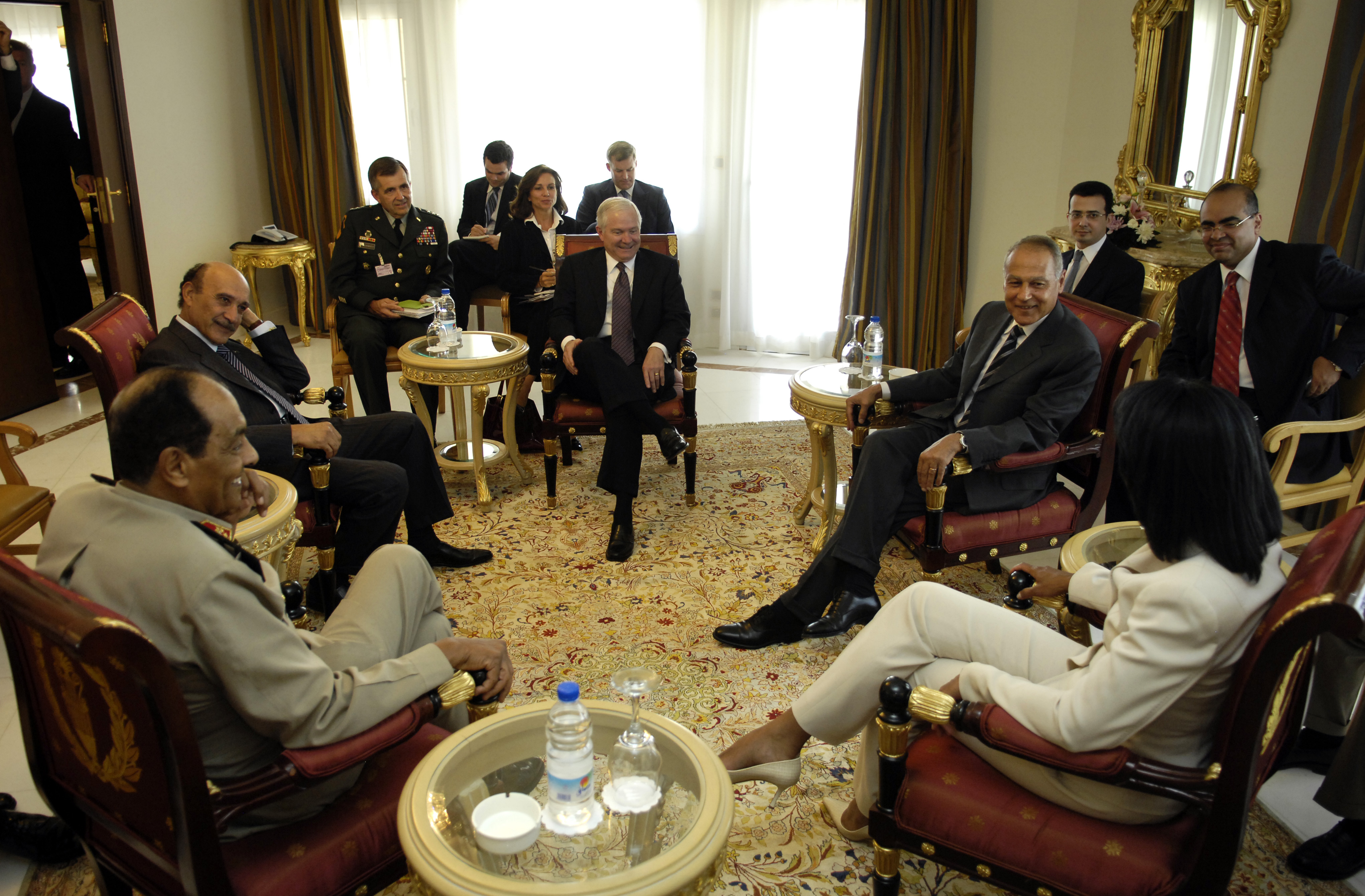 Secretary of Defense Robert M. Gates (center) and Secretary of State Condoleezza Rice meet with Egyptian Foreign Minister Aboul Gheit, Minister of Defense Mohammed Hussein Tantawi and Intelligence Director Omar Soliman in Sharm El Sheikh, Egypt, July 31, 2007.